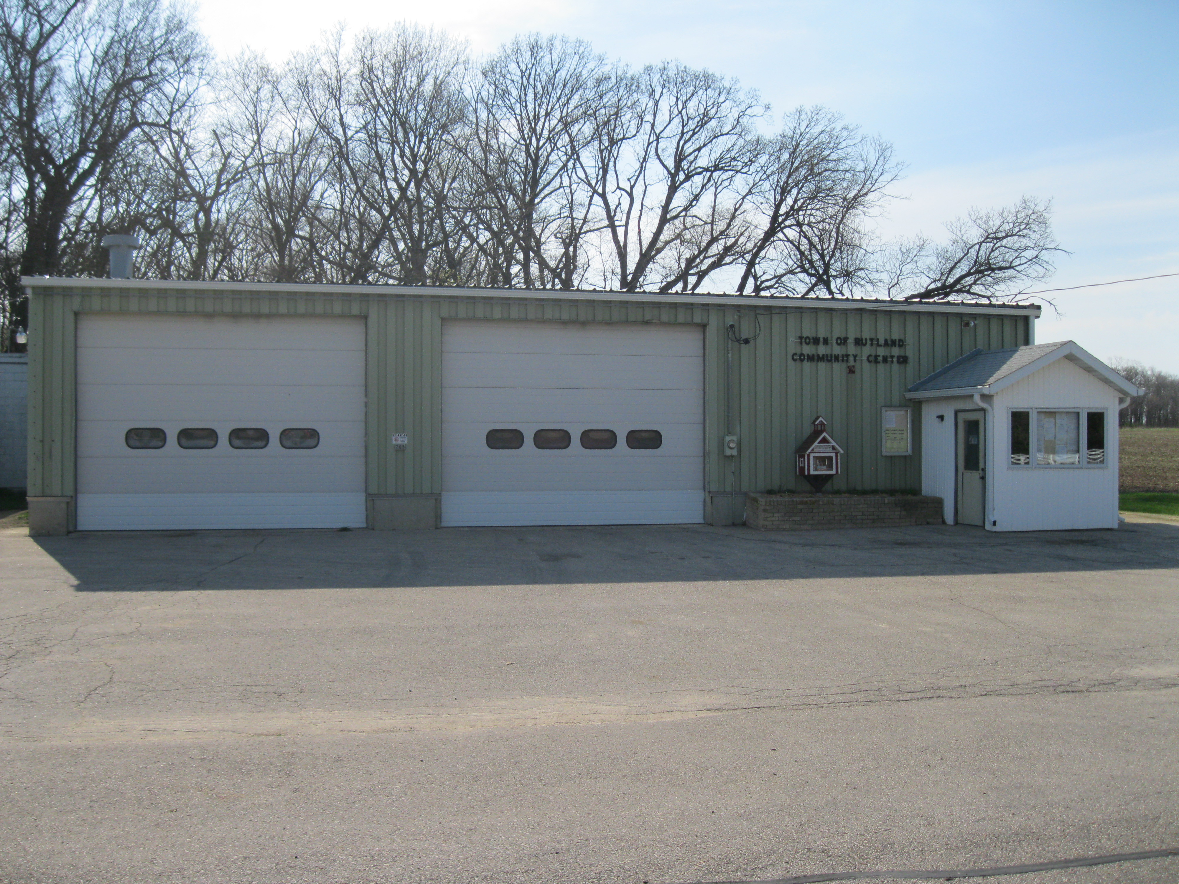 Rutland, Wisconsin town hall and community center.